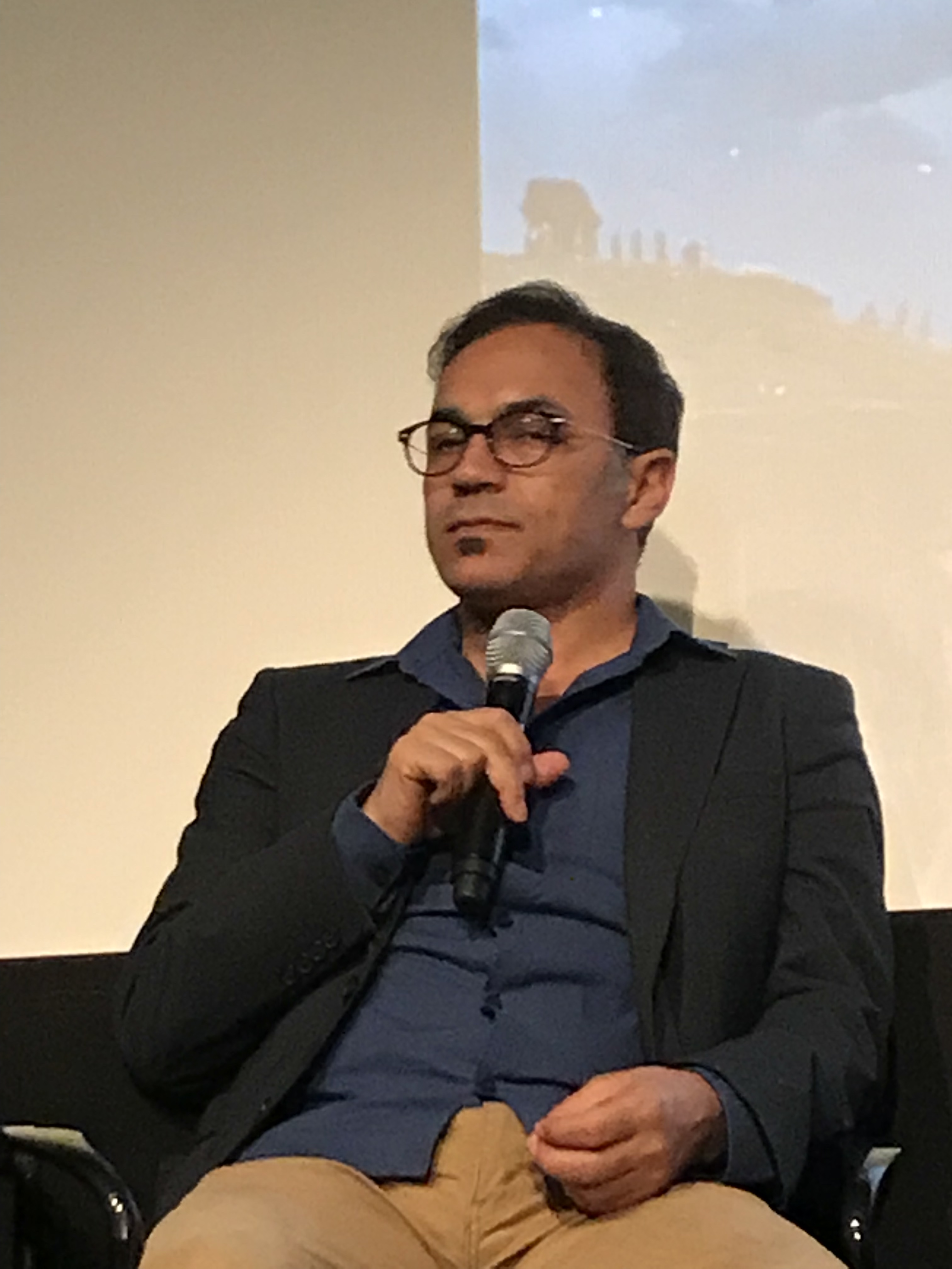 Kazım Öz at a screening of Zer, a movie he directed, at New York University's Iris & B. Gerald Cantor Film Center.